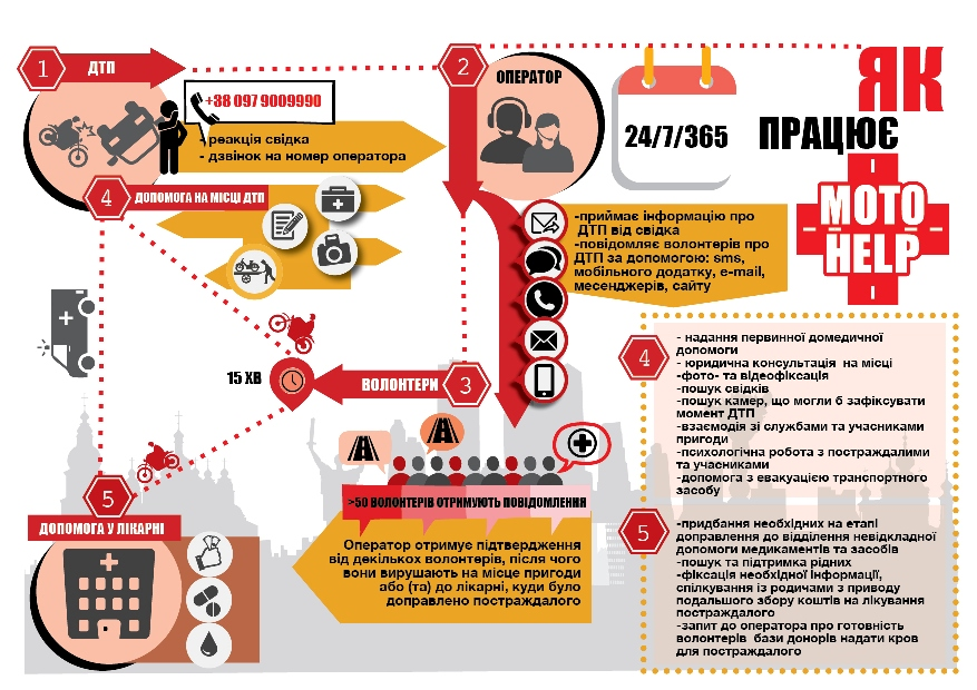 Infographic about how Motohelp processes requests